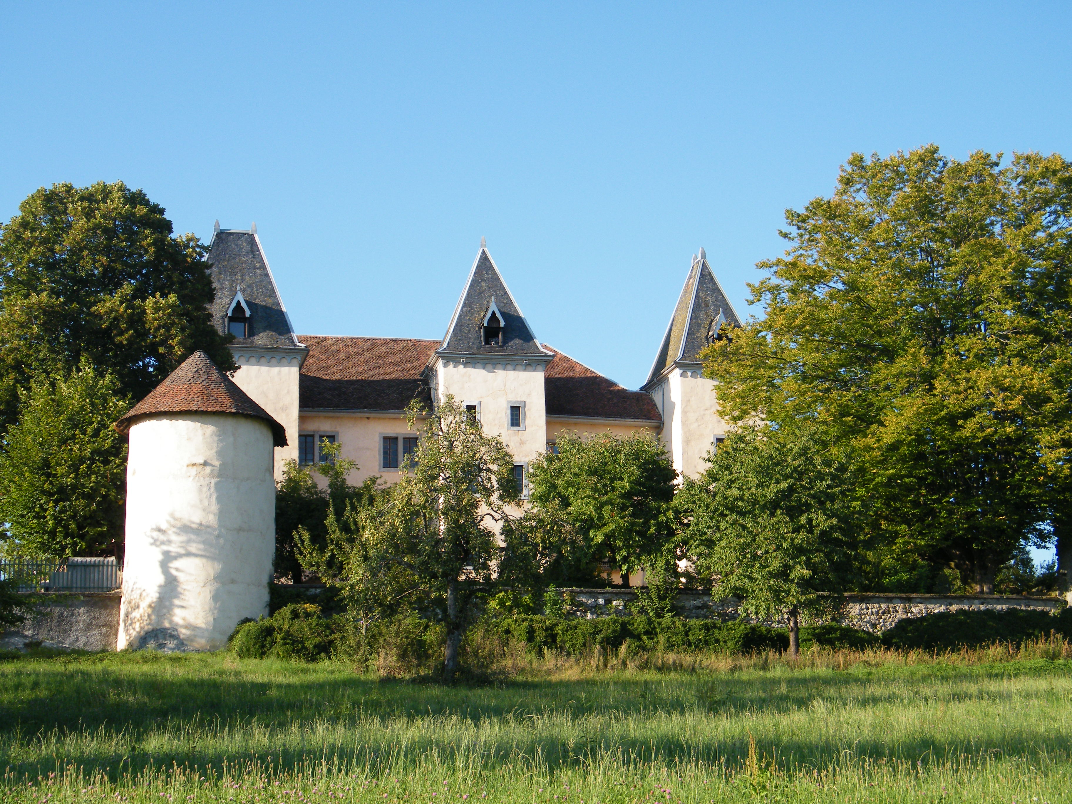 Promery Castle, in Pringy, Haute-Savoie, France